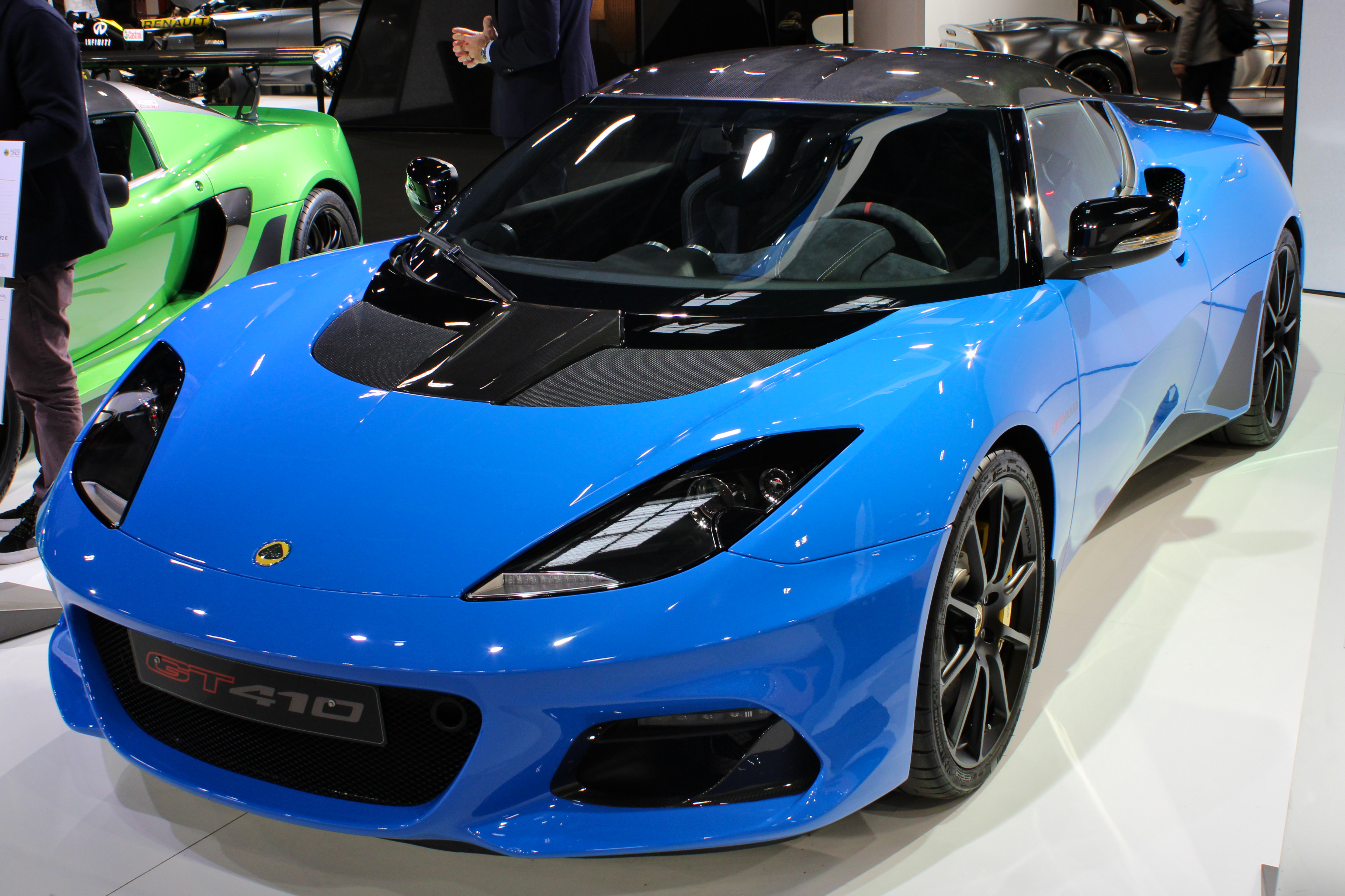 Lotus Evora GT 410 at Paris Motor Show 2018